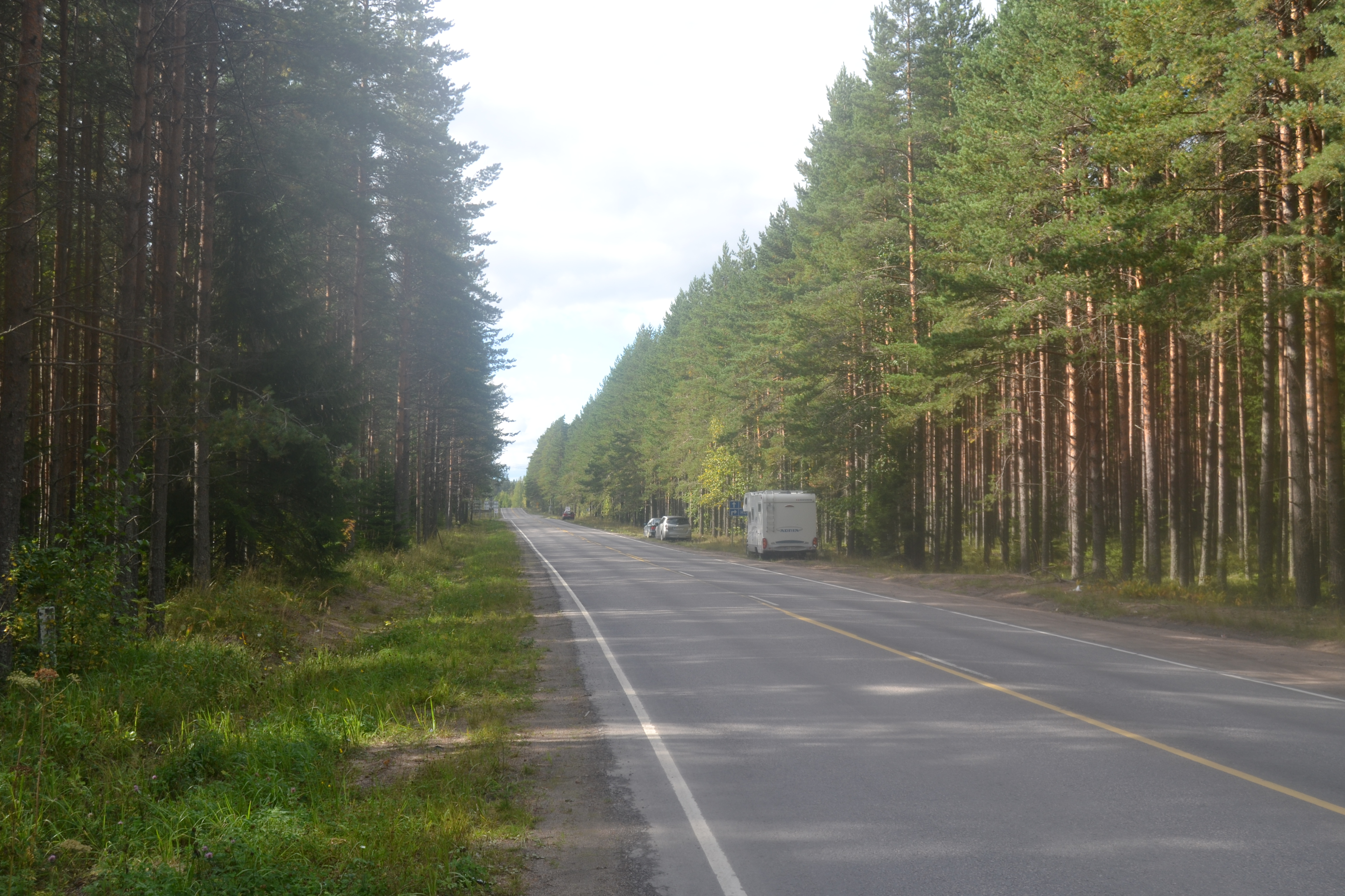 Highway 56 in Jämsänkoski, Finland